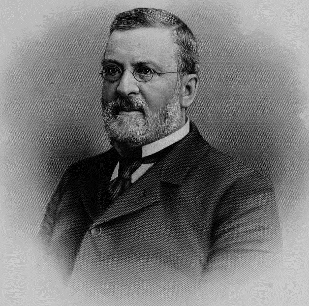 Portrait of businessman Amory Houghton Jr (1837-1909), owner of the Corning Glass Works, father of Alanson B. Houghton